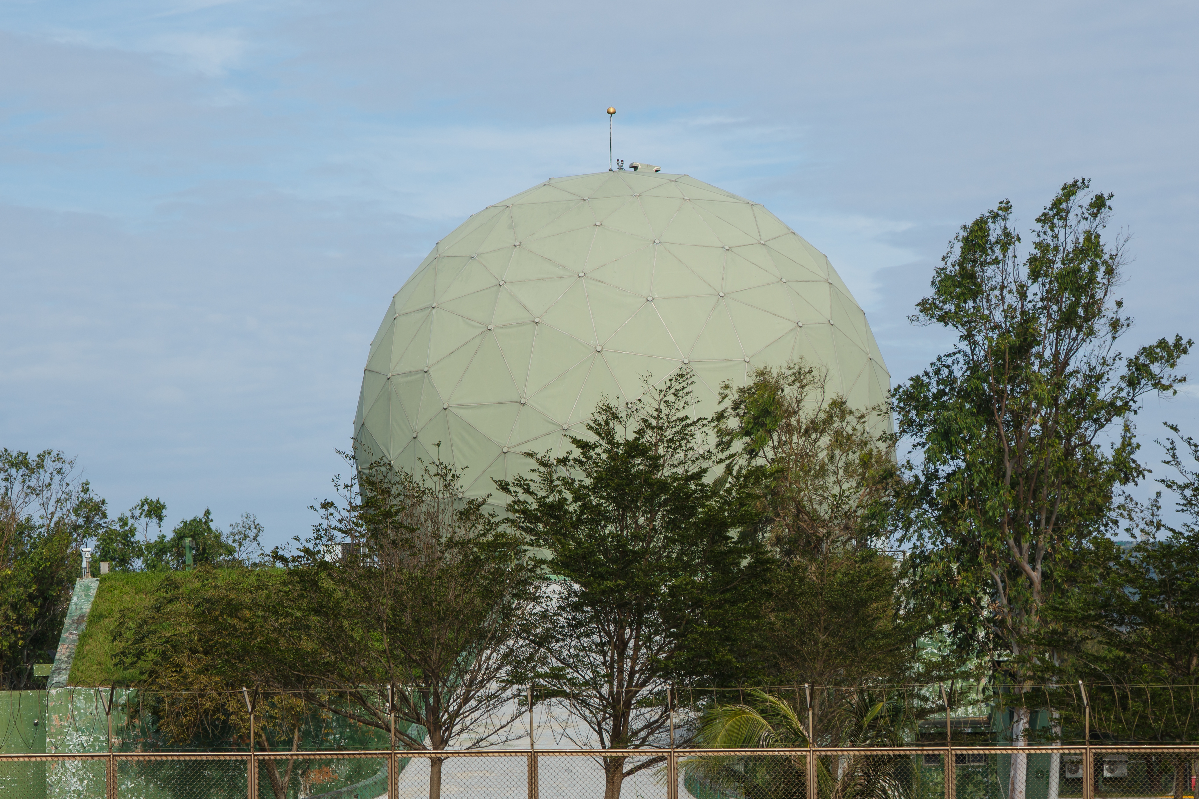 Taitung, Taiwan: Radar station of Taitung Air Base (Chih Hang Air Force Base)